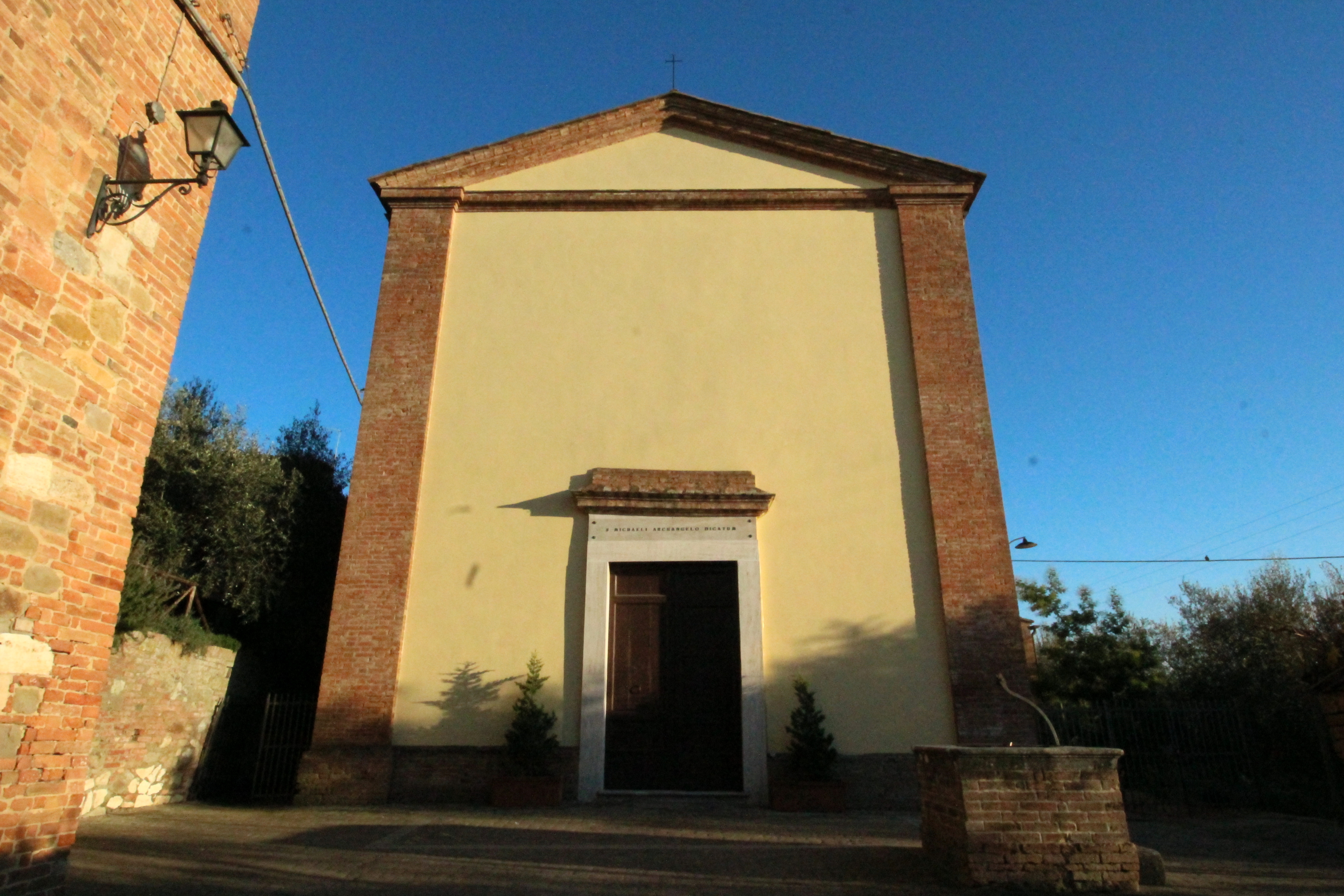 Church San Michele Arcangelo, Chiusure, hamlet of Asciano, Province of Siena, Tuscany, Italy